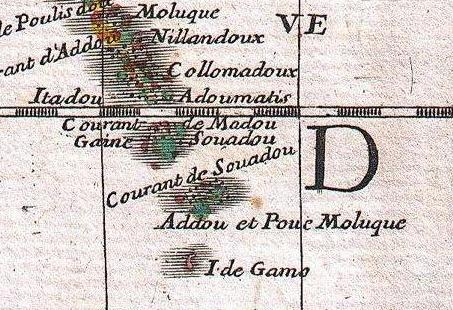 Section of Sanson Map centered on the Suvadiva Channel